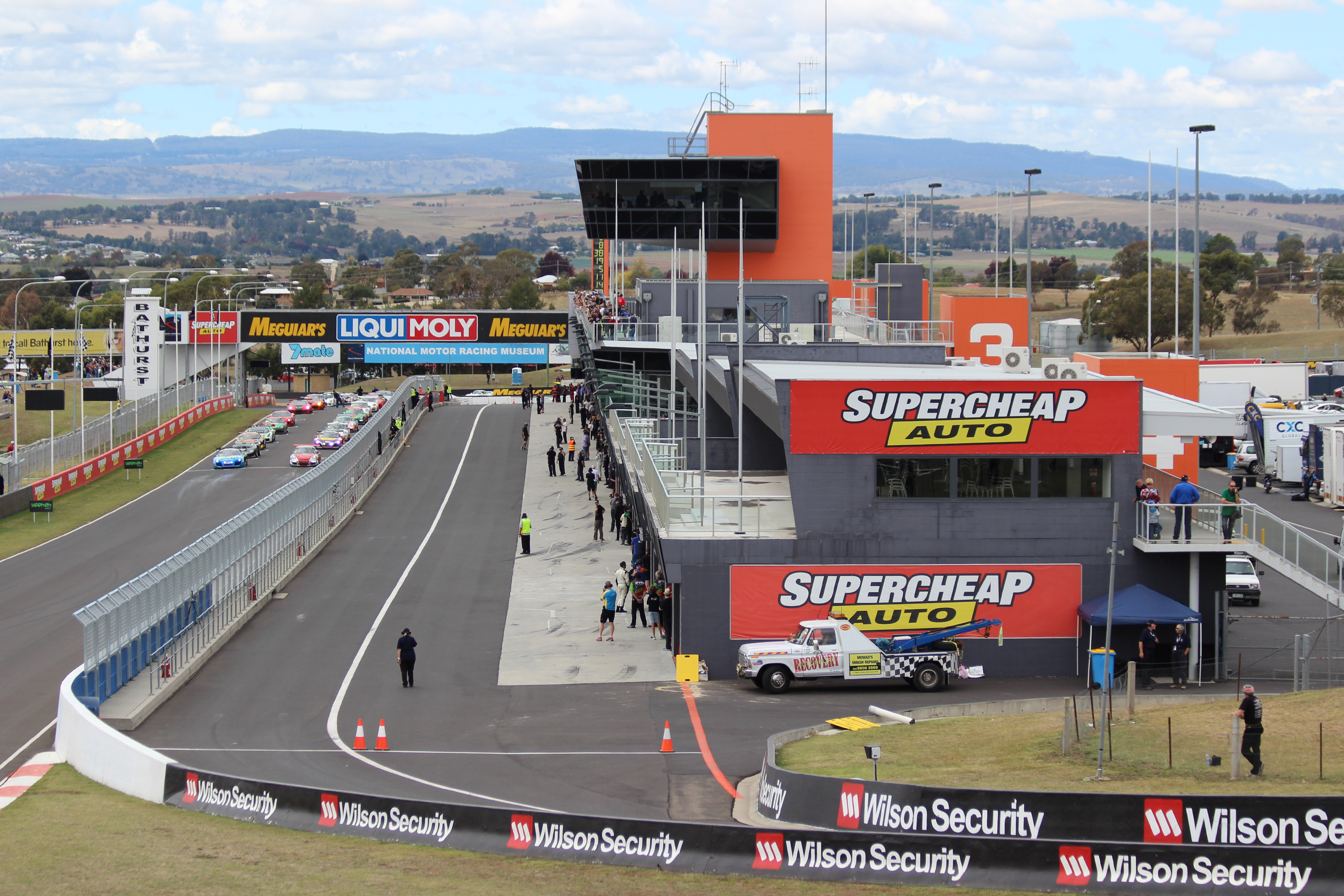 Cars on the grid prior to the start of a one-hour Sports Production race at the 2015 Bathurst Motor Festival.